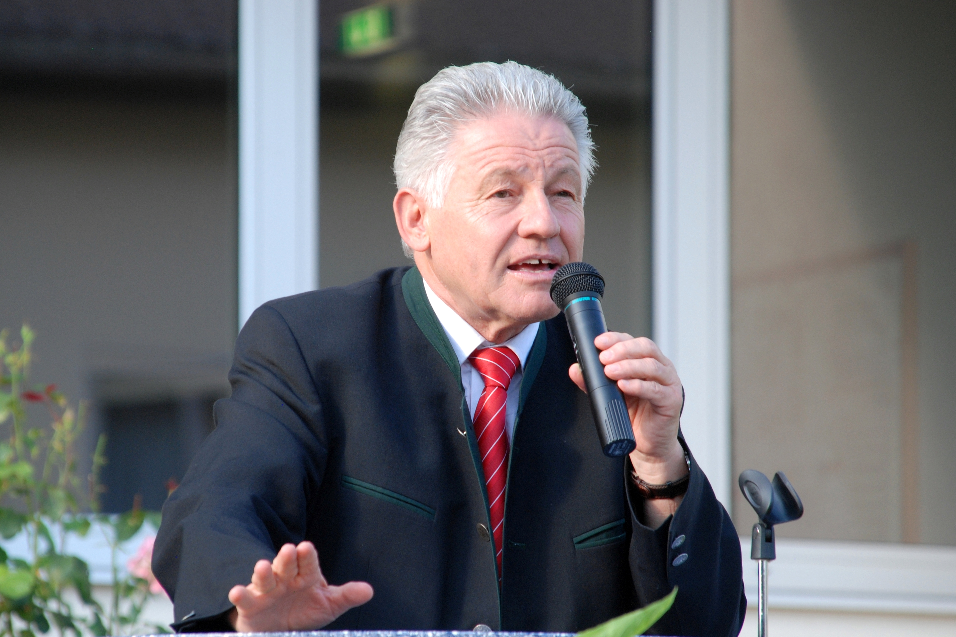 The politician Josef Pühringer, governor of Upper Austria, at the opening of the new art therapy centre in the Caritas institution St. Pius in Peuerbach, Austria.